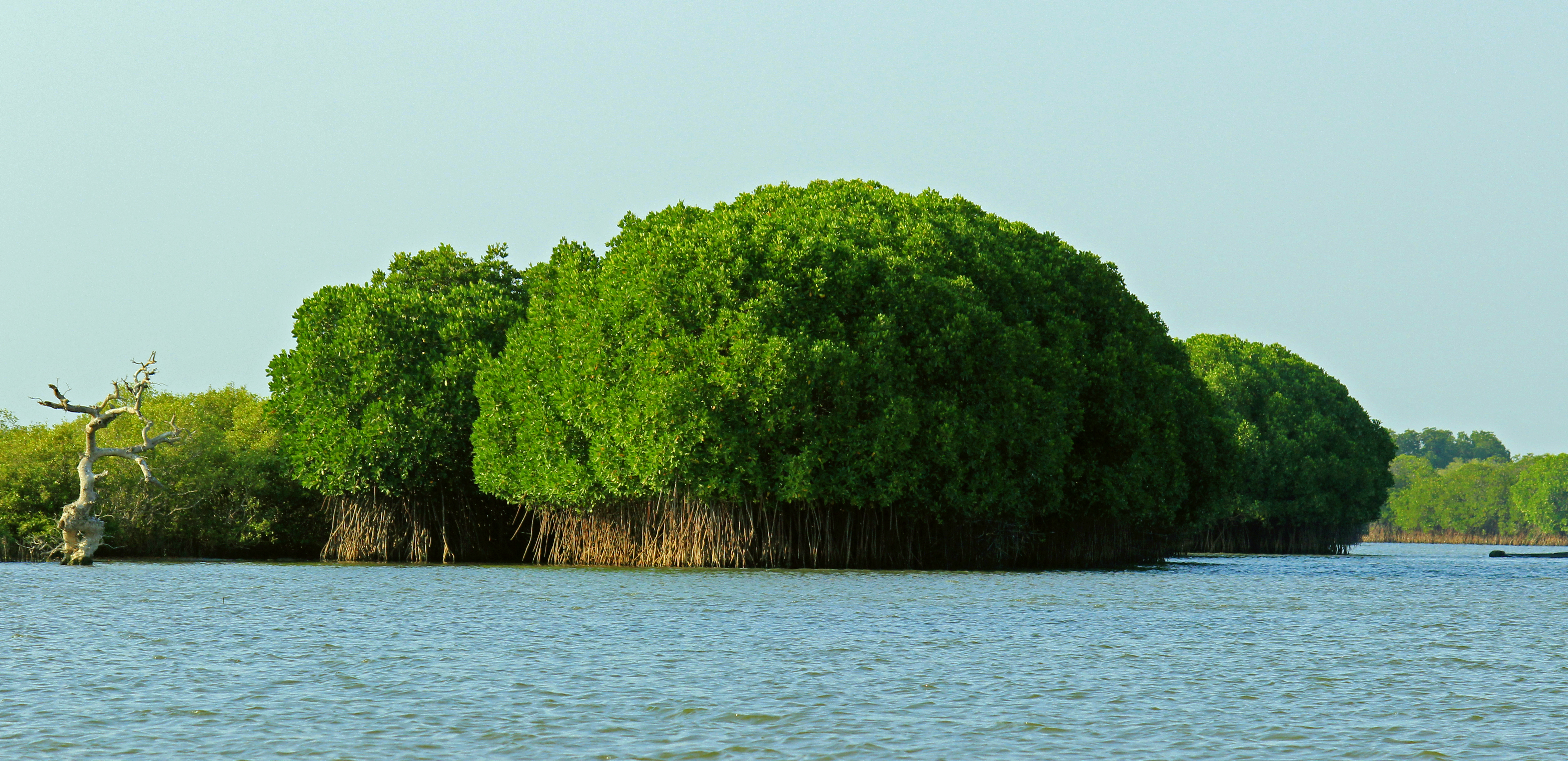 This was taken at while travelling in a motor boat